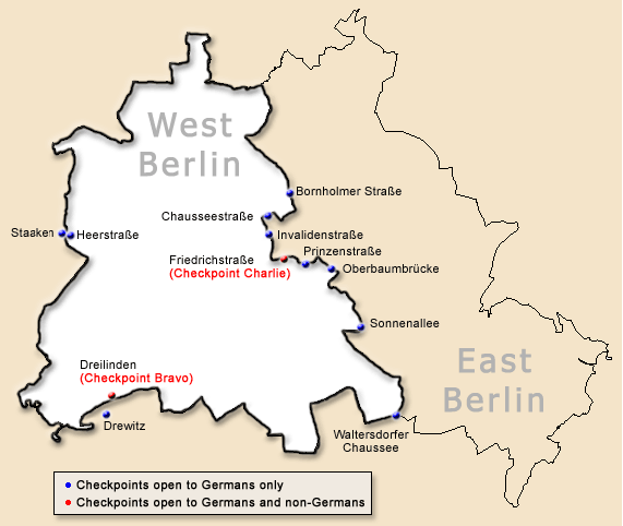 Map of the Berlin Wall, showing checkpoints.